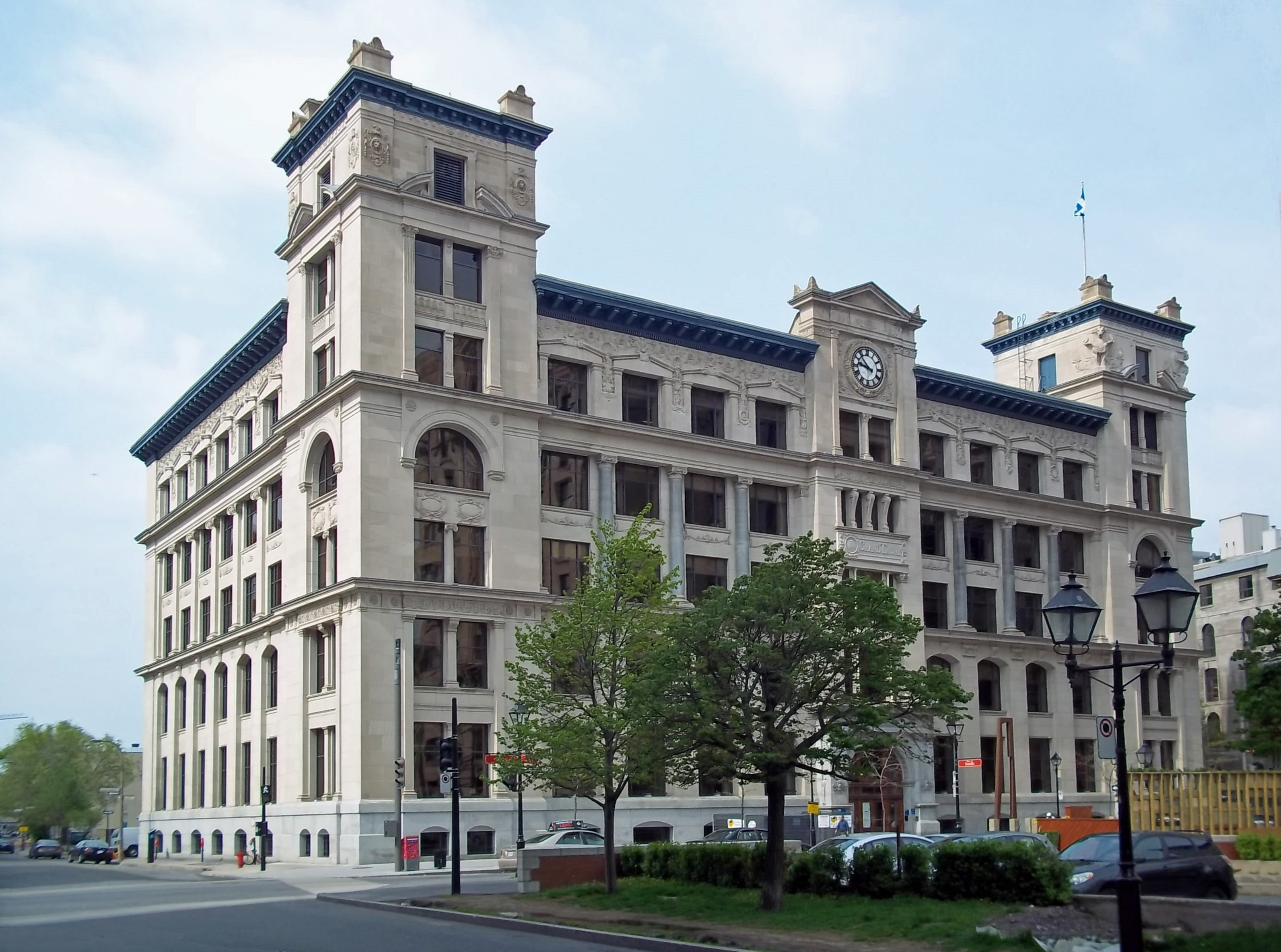 Grand Trunk Building, 360, McGill Street, Montreal